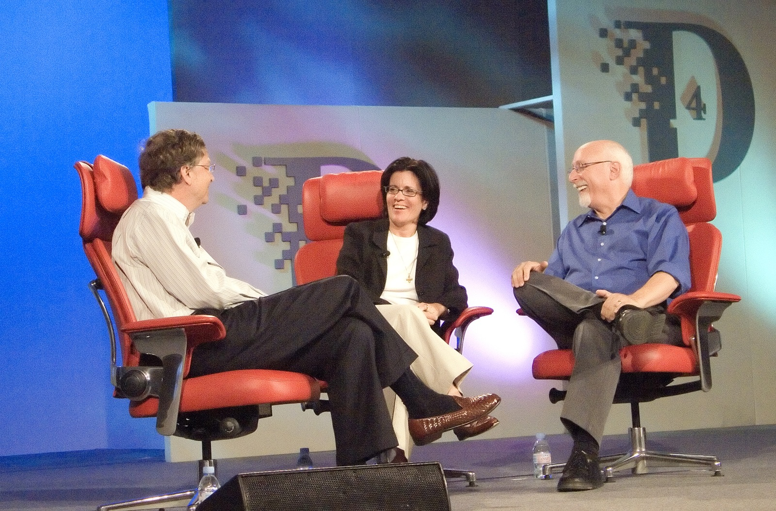 Bill, Kara & Walt The Wall Street Journal